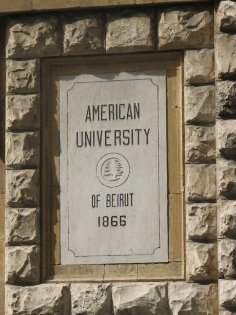 At the Main Gate, photographed by BlingBling10.